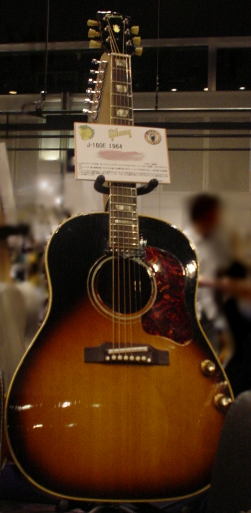 Gibson J-160E (Sun Burst 1964)